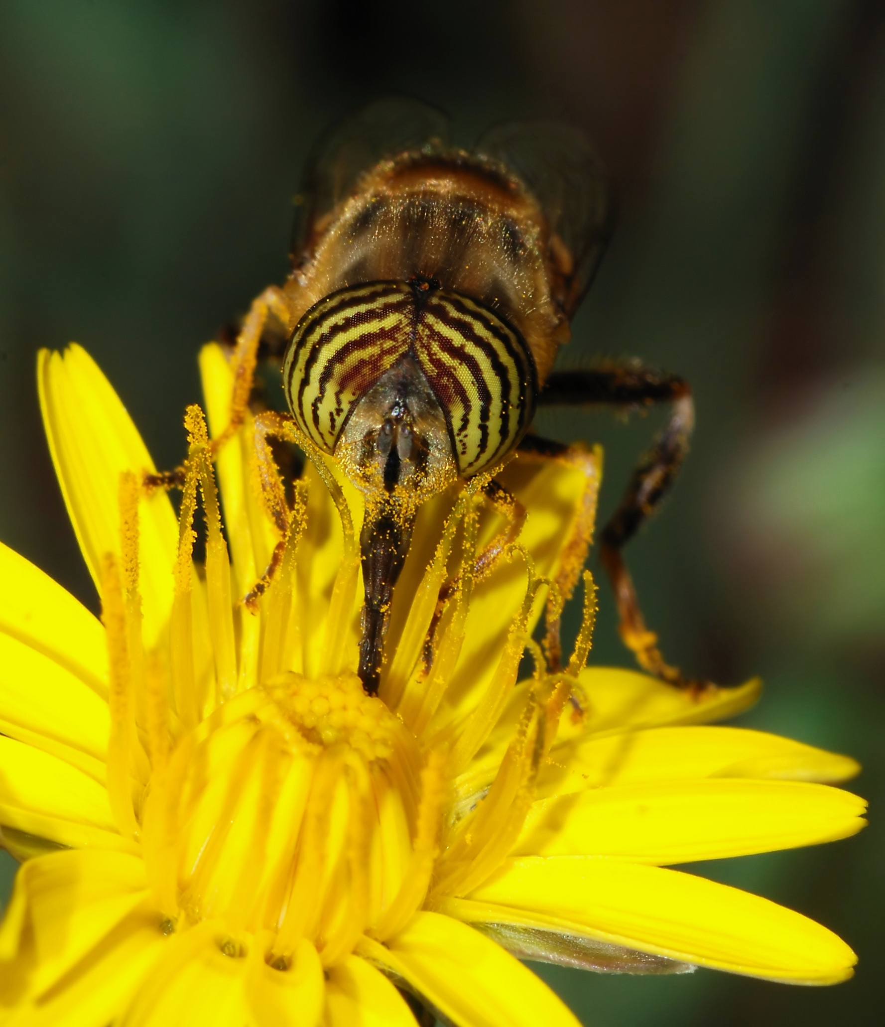 The head of a male hoverfly (Eristalinus taeniops).